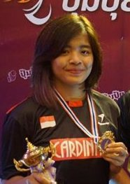 Suci RIzki Andini and Yulfira Barkah Winning